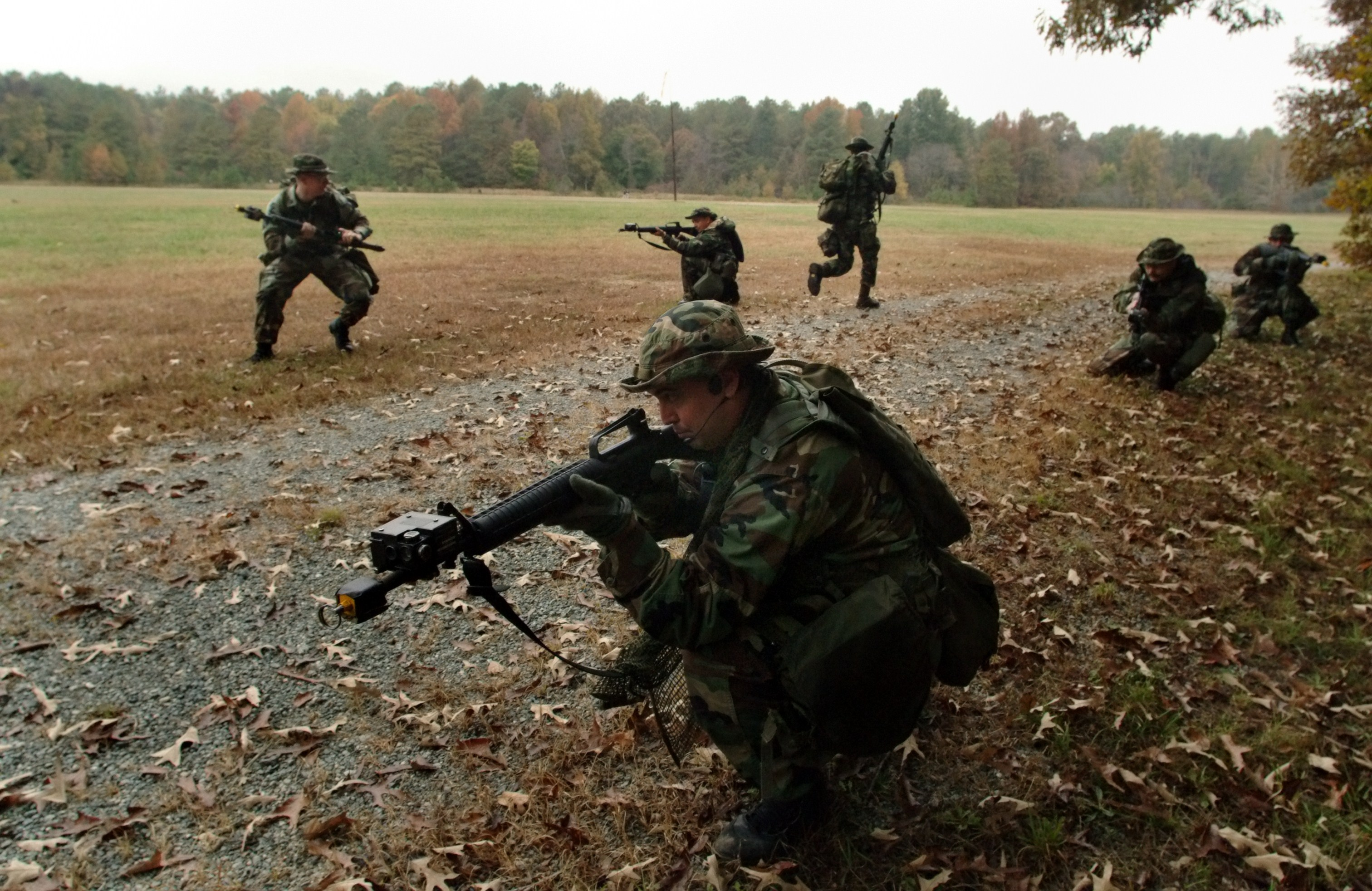 Fort A.P. Hill, Va. (Oct. 25, 2004) – U.S. Navy combat photographers practice a “center peel” maneuver during troop formation and contact drills. Photographers, Journalists and support personnel assigned to Fleet Combat Camera Atlantic are conducting a week long field exercise at Fort A.P. Hill, Virginia. U.S. Navy photo by Chief Photographer's Mate Johnny Bivera (RELEASED)